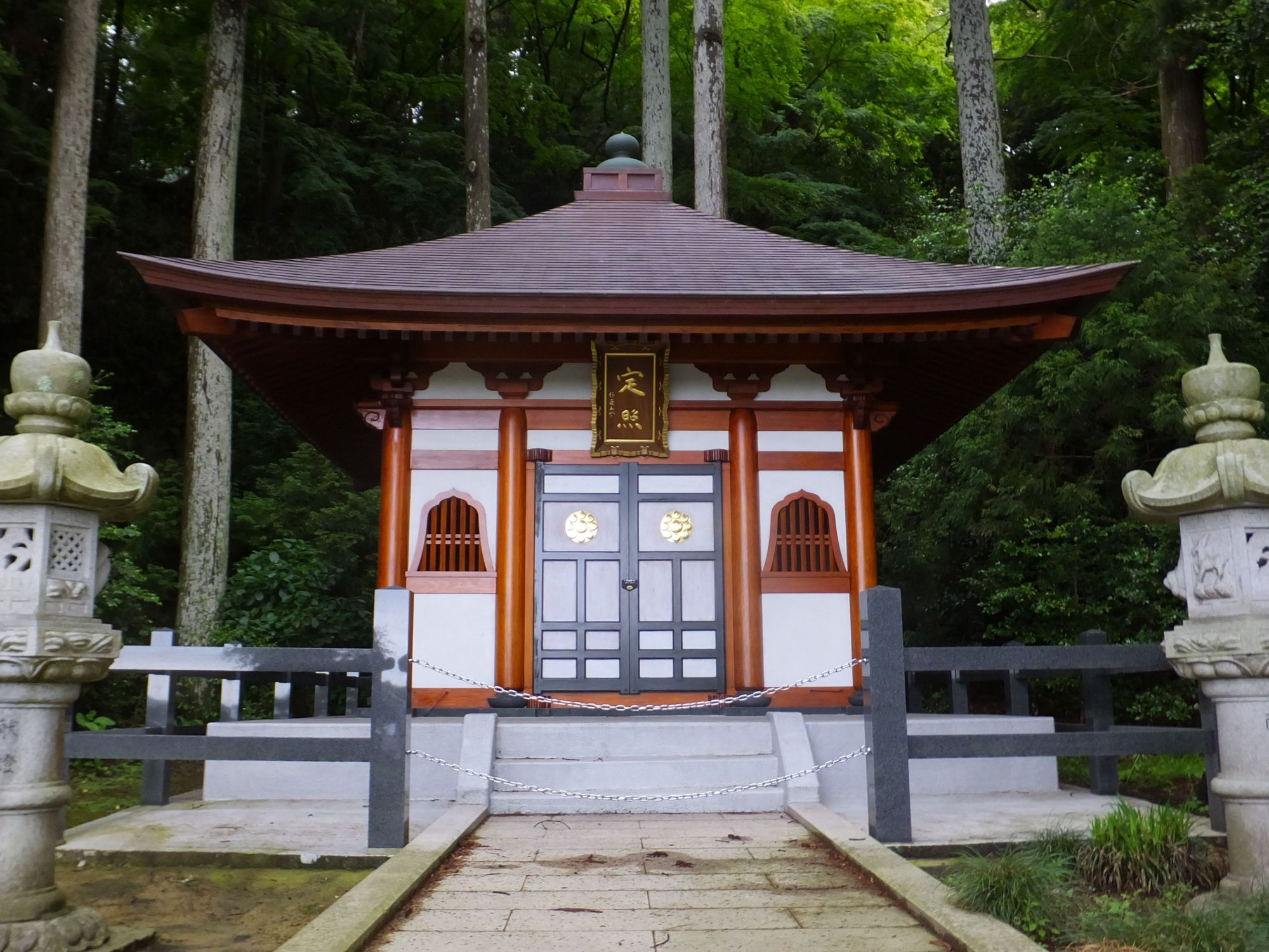 Mausoleum of Irohahime at Tenrin-in temple in Matsushima, Miyagi